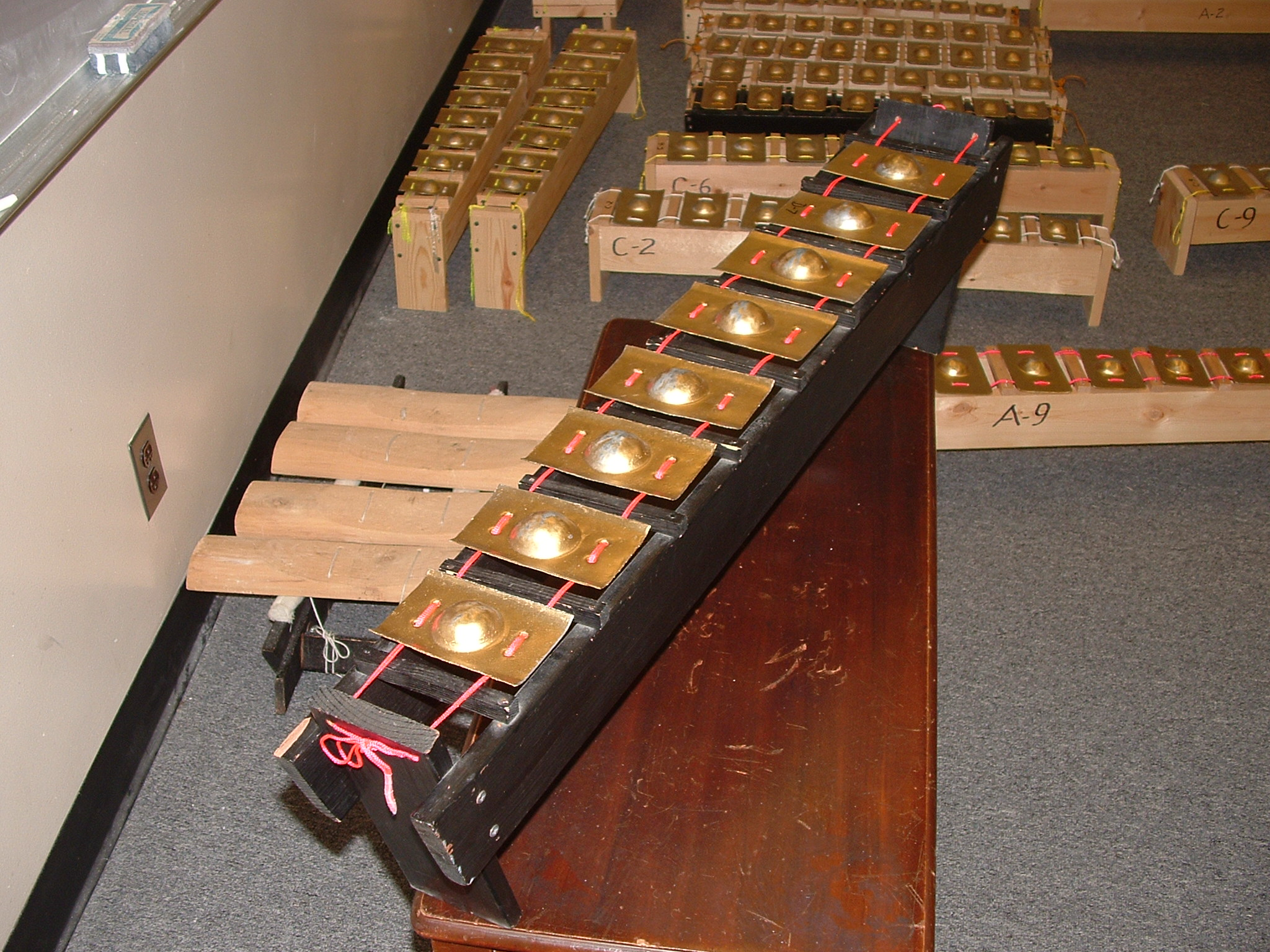 This is a kulintang a tiniok, a type of Philippine mettallophone with eight tuned knobbed metal plates strung together via string atop a wooden antangan (rack). This instrument in particular is used by Master Danongan Kalanduyan at San Francisco State to teach his kulintang class.